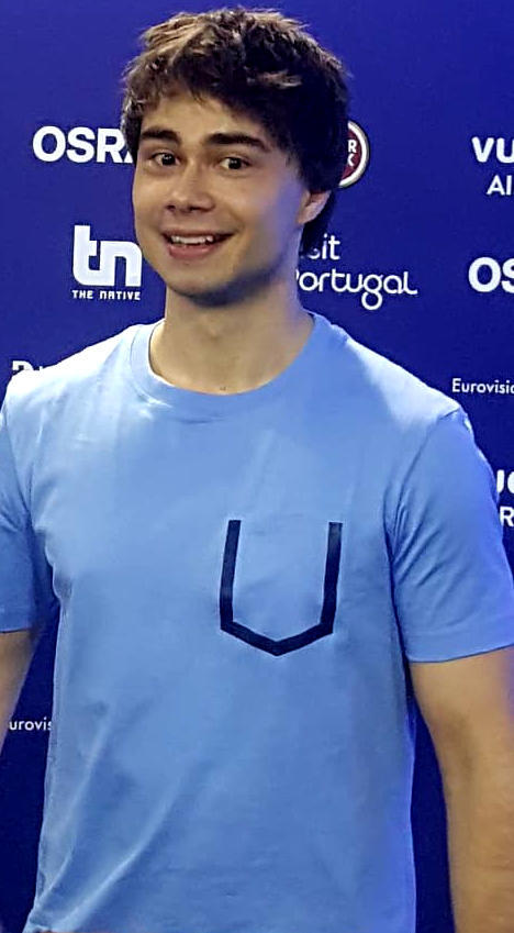 Norwegian-Belarussian singer and fiddler Alexander Rybak on May 2018.